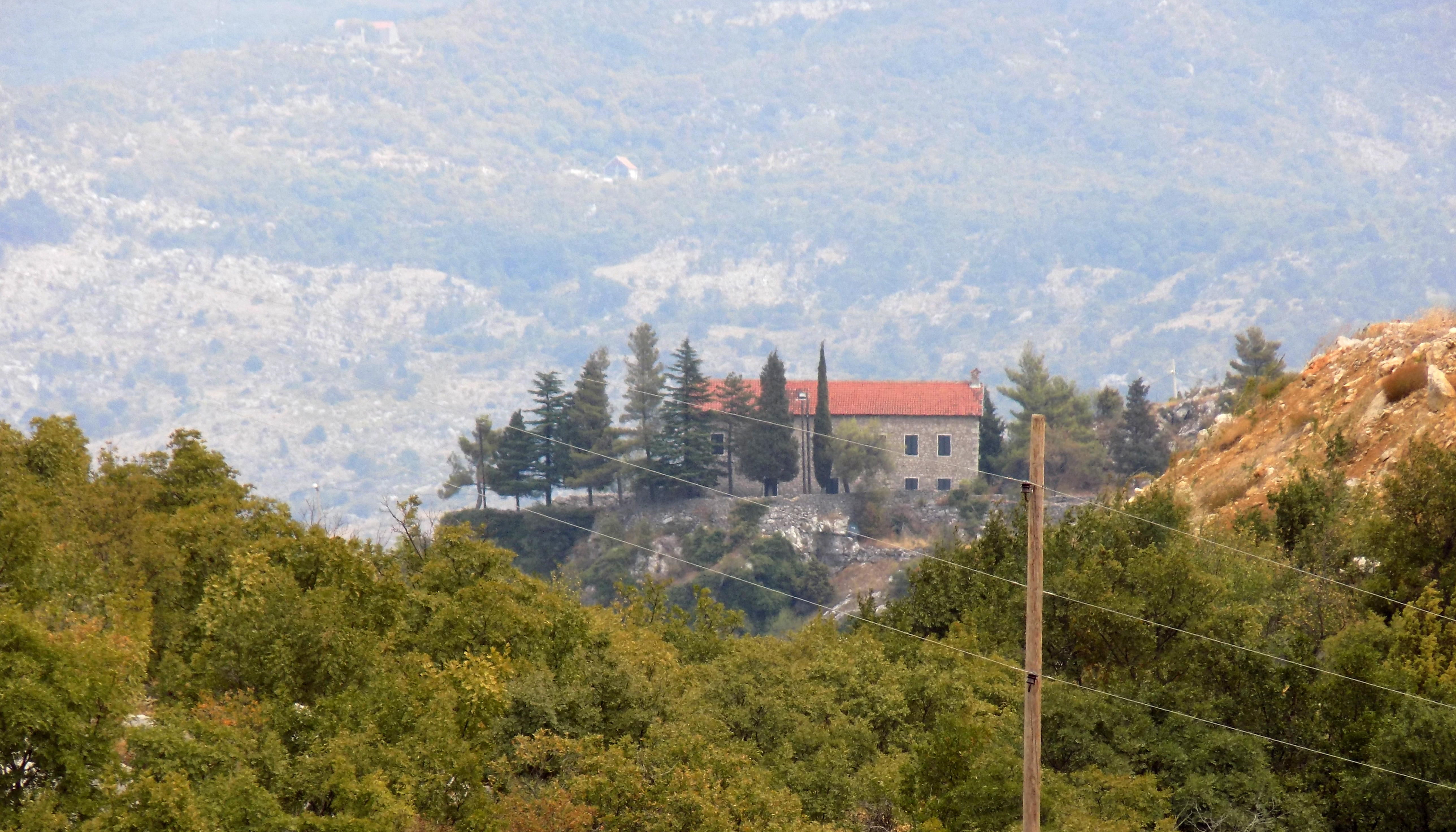 Museum of Marko Miljanov next to the fortress Meteon